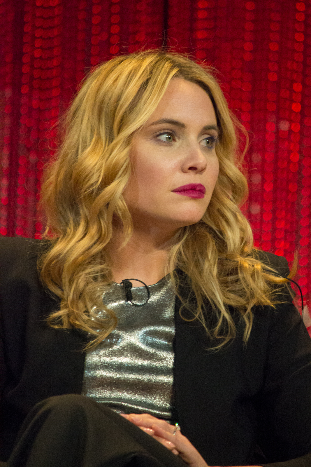 Leah Pipes at The Paley Center For Media's PaleyFest 2014 Honoring "The Originals"